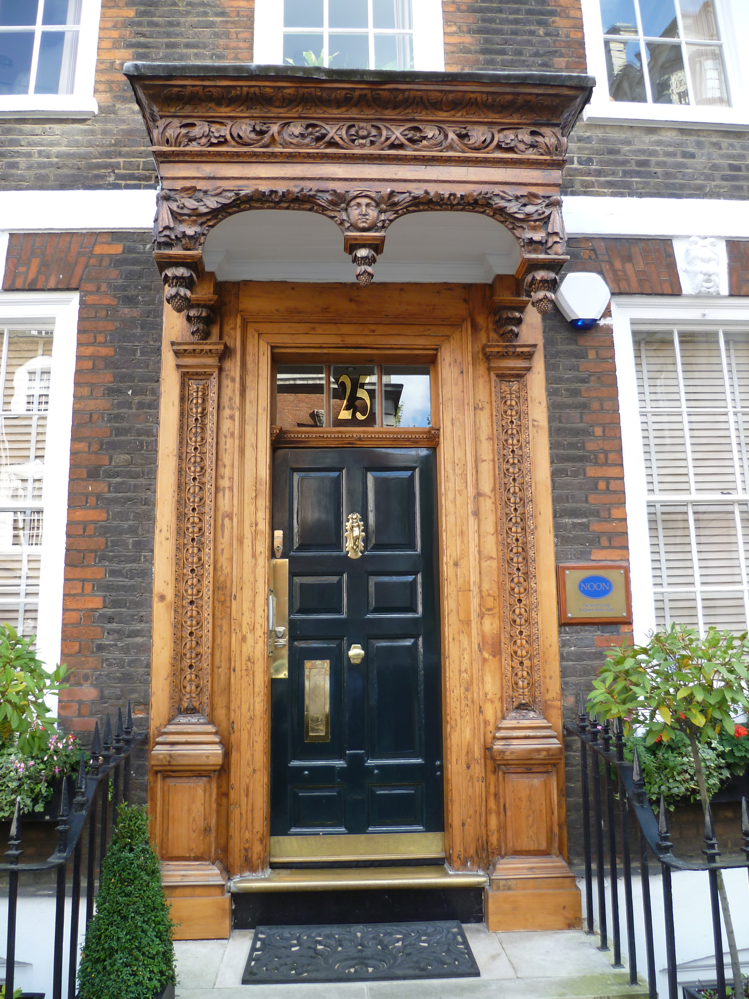 London